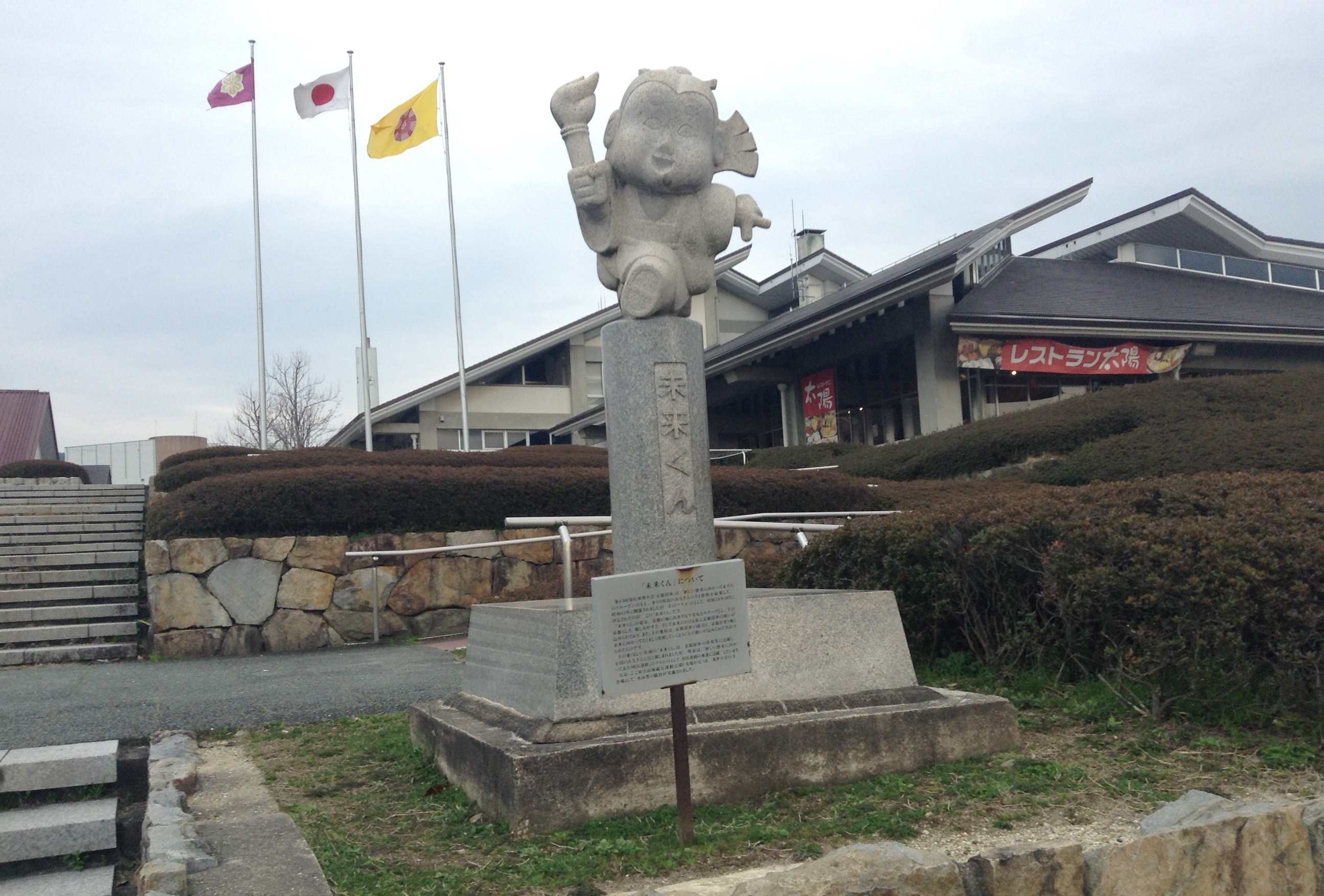 monument of National Sports Festival in Kyoto Yamashiro Sports Park.